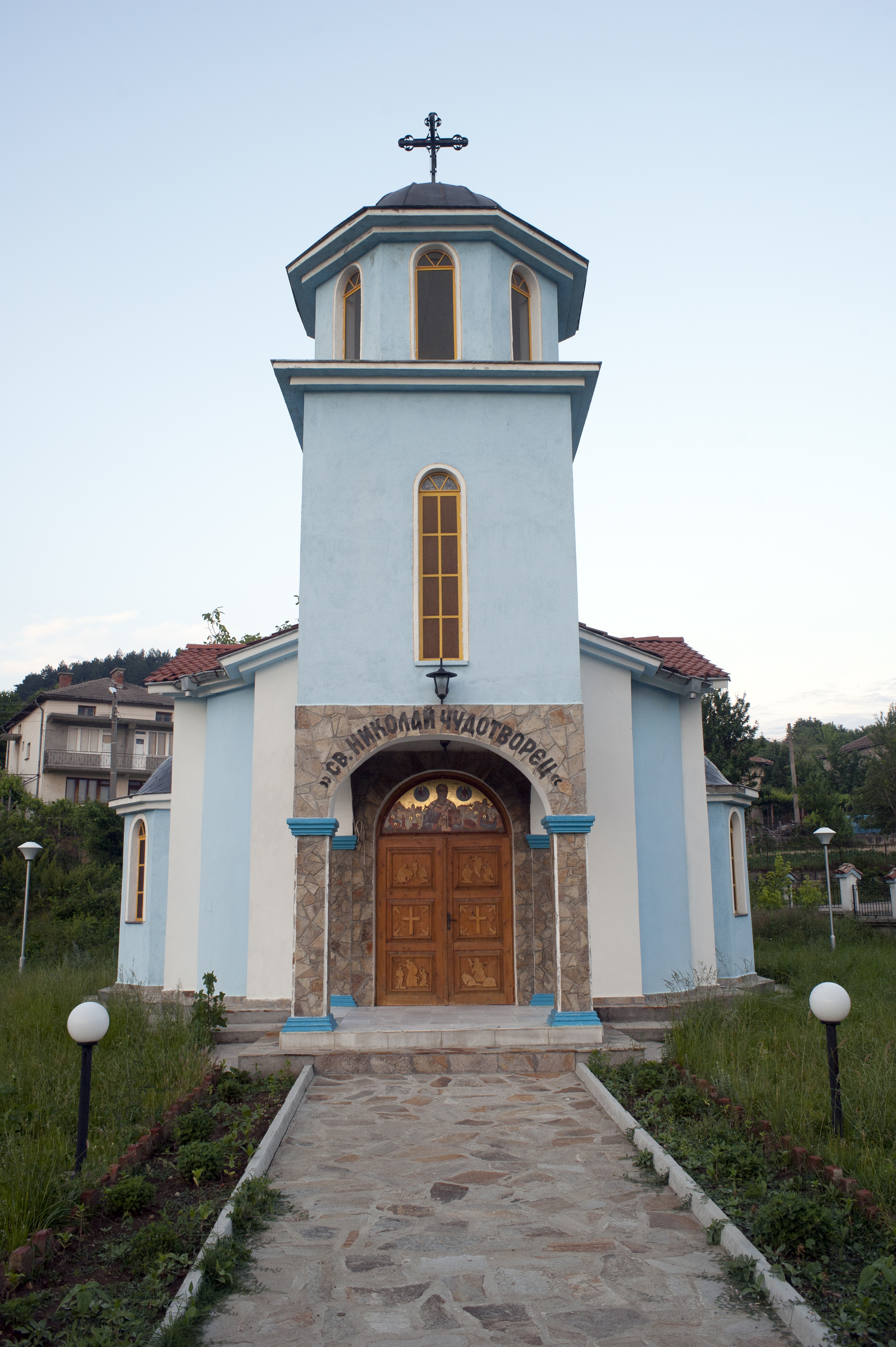 Svet Nikolai - Avren (Kardzhali province), Bulgaria.